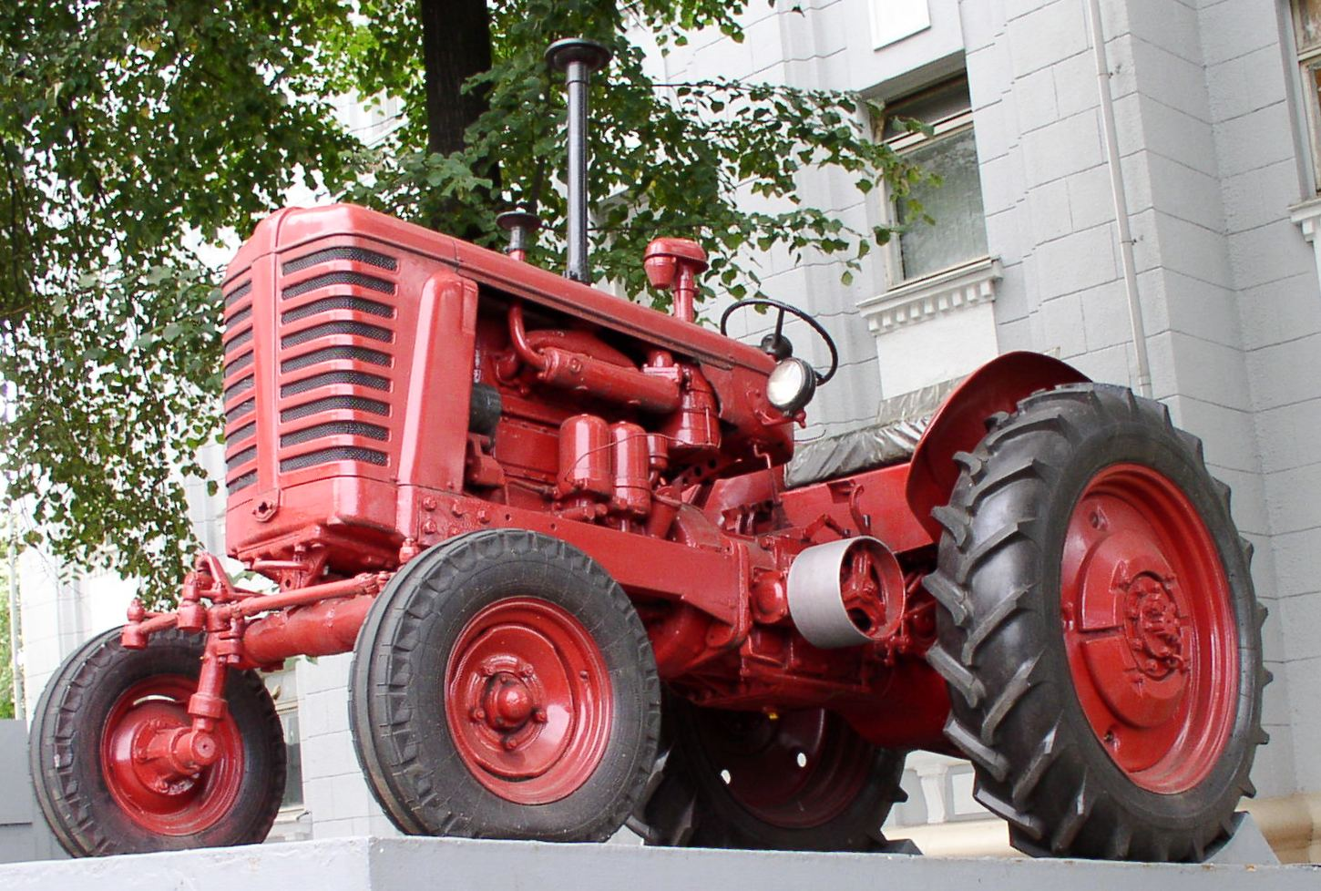 MTZ-2 tractor in Minsk